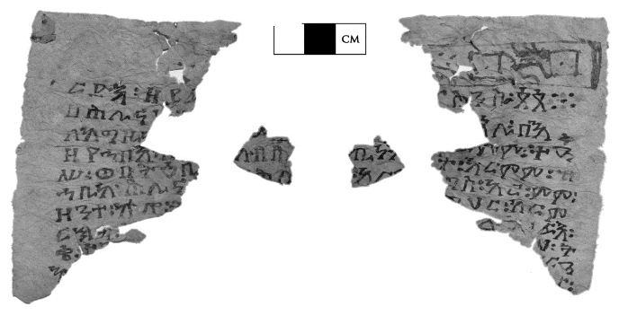 A Ge'ez manuscript from the monastery of St. Antony in Egypt, dated 1160-1265. It's a translation from a Greek or Arabic original and discusses the values of silence. It proves the presence of Ethiopian ins Egypt during the rule of the Zagwe kingdom